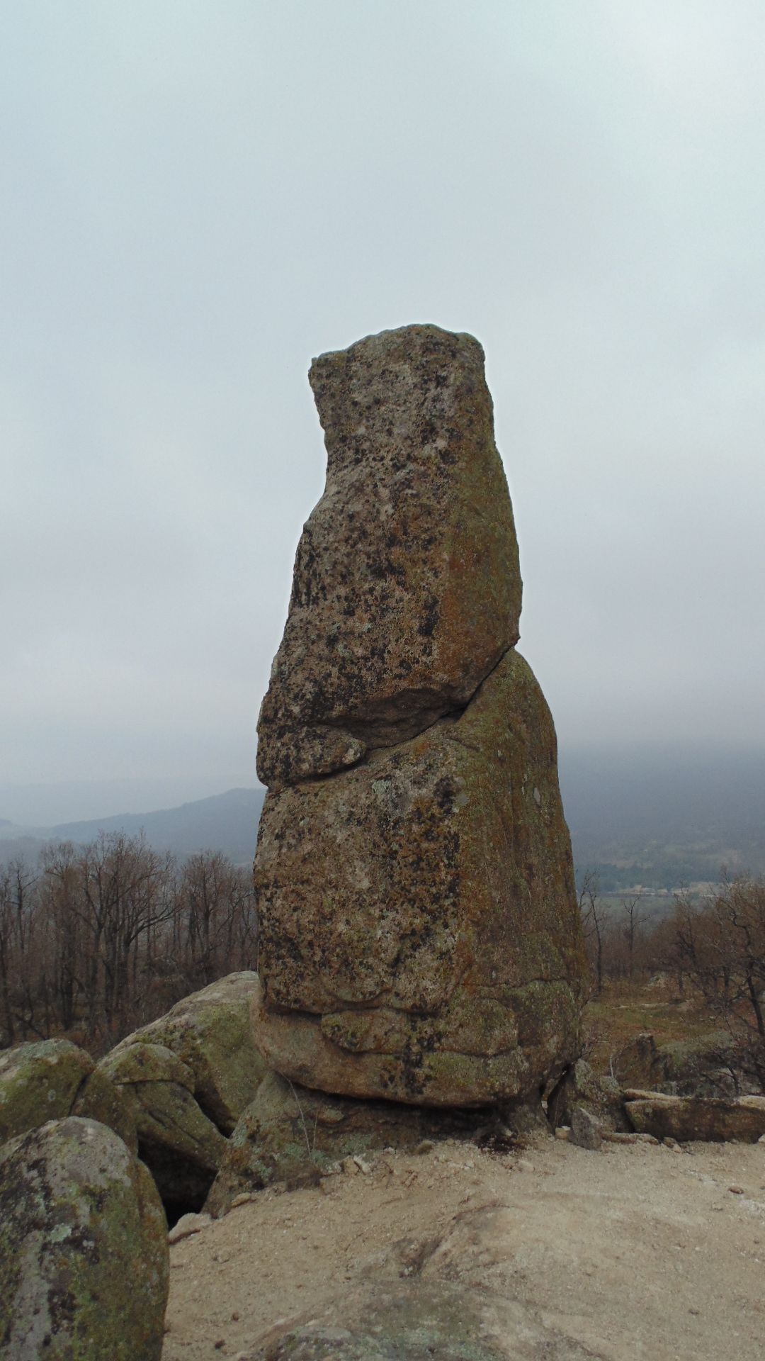 Kulata